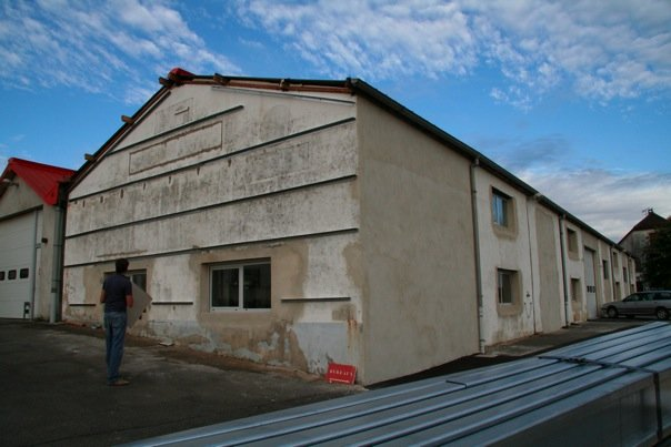 Industrial building before the installation of the air source solar panels